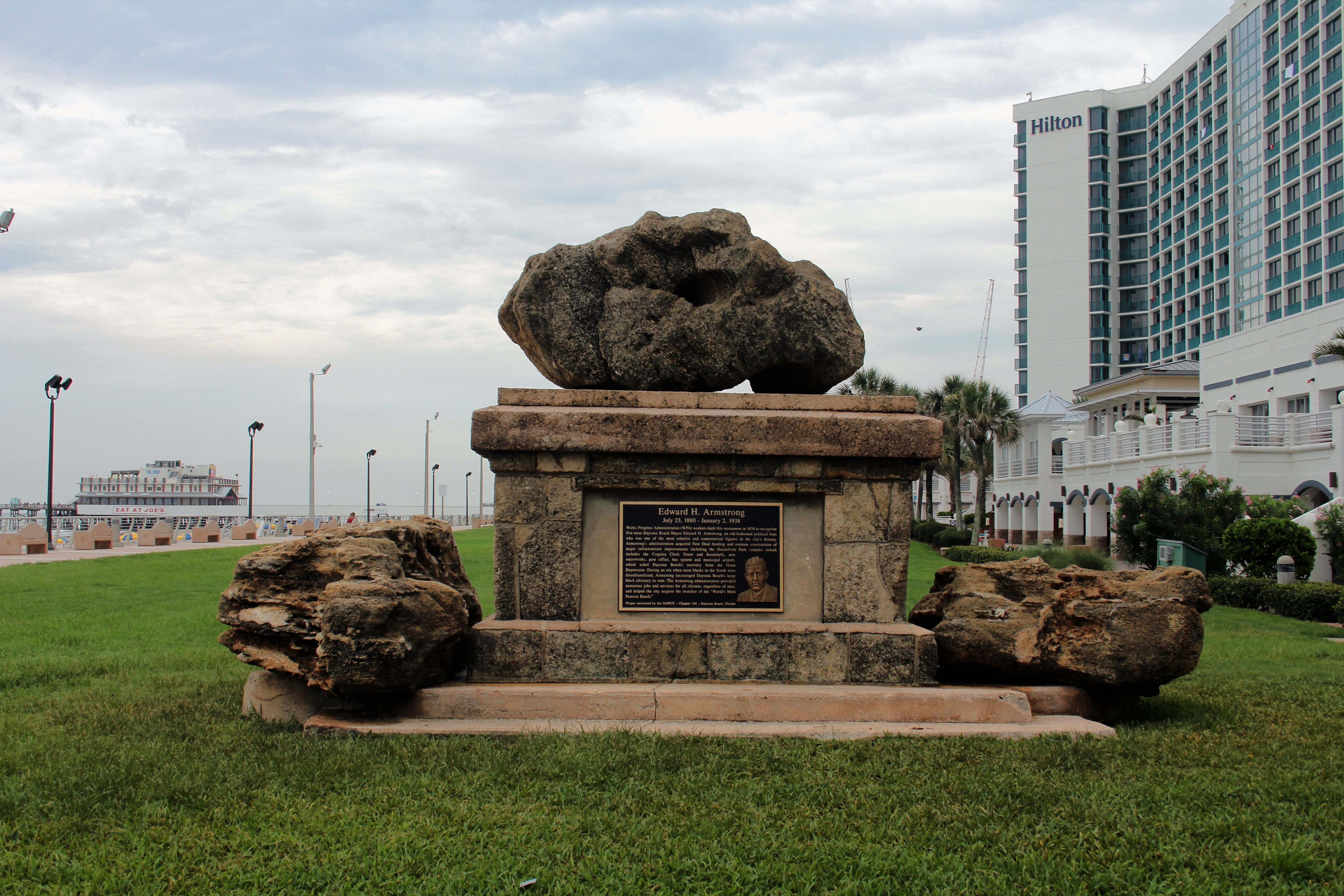 Edward H. Armstrong Monument plaque - freshly installed - full north view.